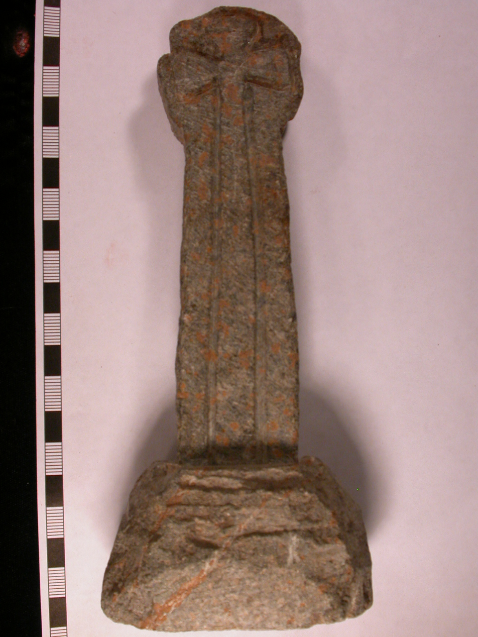 Incomplete polyphant stone miniature Cornish cross, sub-rectangular in plan and rectangular in profile and section, missing most of the head of the cross, where just the base of the round Celtic-style cross remains. The cross was never completed as the lines on each side have been drawn out and defined, but not chiselled out as in the example below. The base of the cross is squared off and relatively narrow to stand upright, so it would probably have been set into a broader base, like the example below. Similar samples of polyphant stone (TRURI 1998.32.8) from Polyphant quarry and workings near Lewannick church, close to where this cross was found, show that this was made from local stone, and likely by the stone mason's that was based near the church also. A similar miniature cross made of polyphant stone in the 20th century is pictured here and was shown to the recorder by Andrew Langdon, an expert in Cornish crosses.